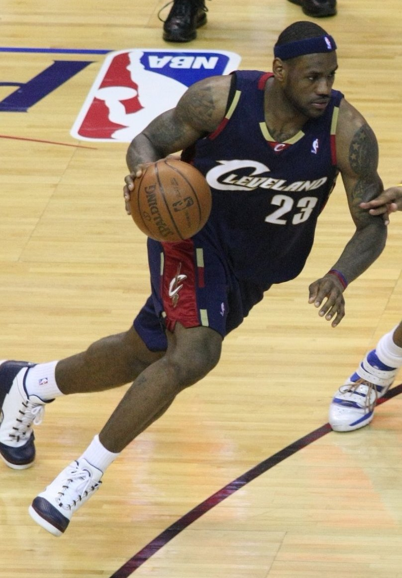 Lebron James cropped, Cleveland Cavaliers, 2008